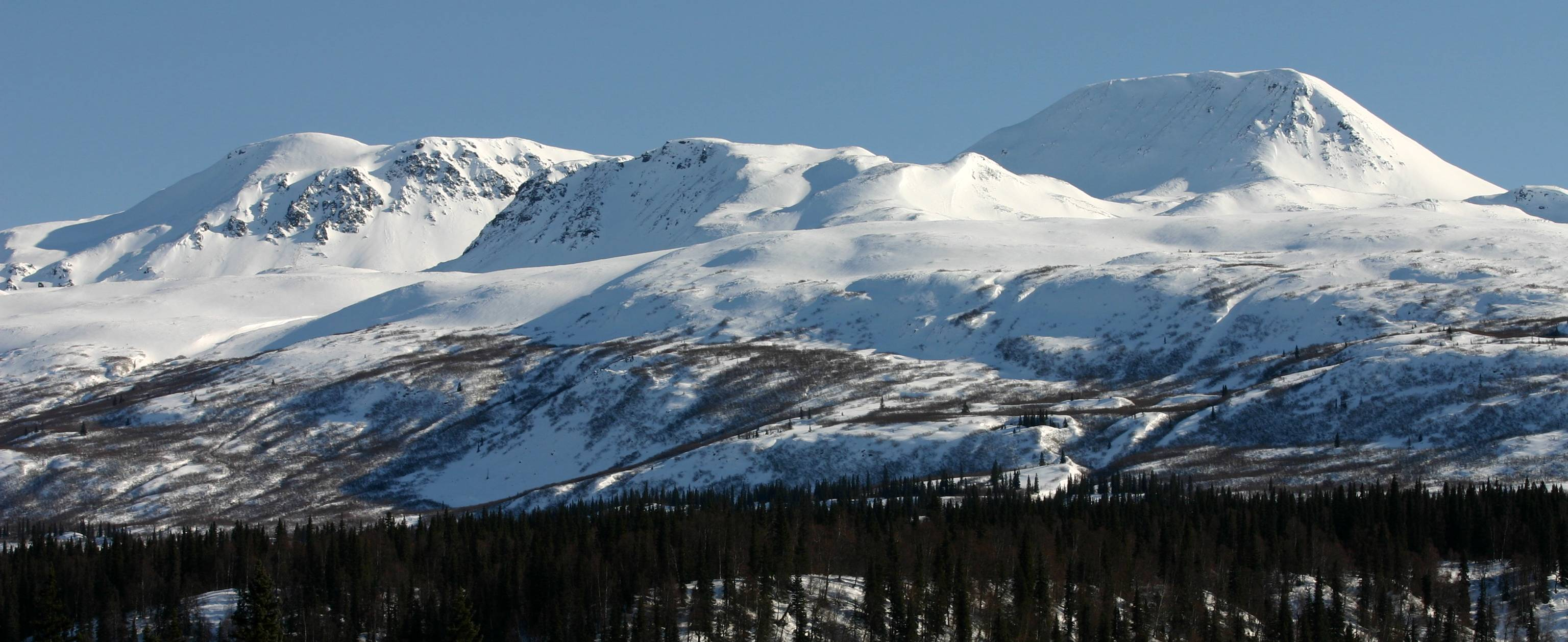 Taken on a long weekend road trip from Anchorage to Fairbanks in March 2008. I took these shots while traveling on the Parks highway.